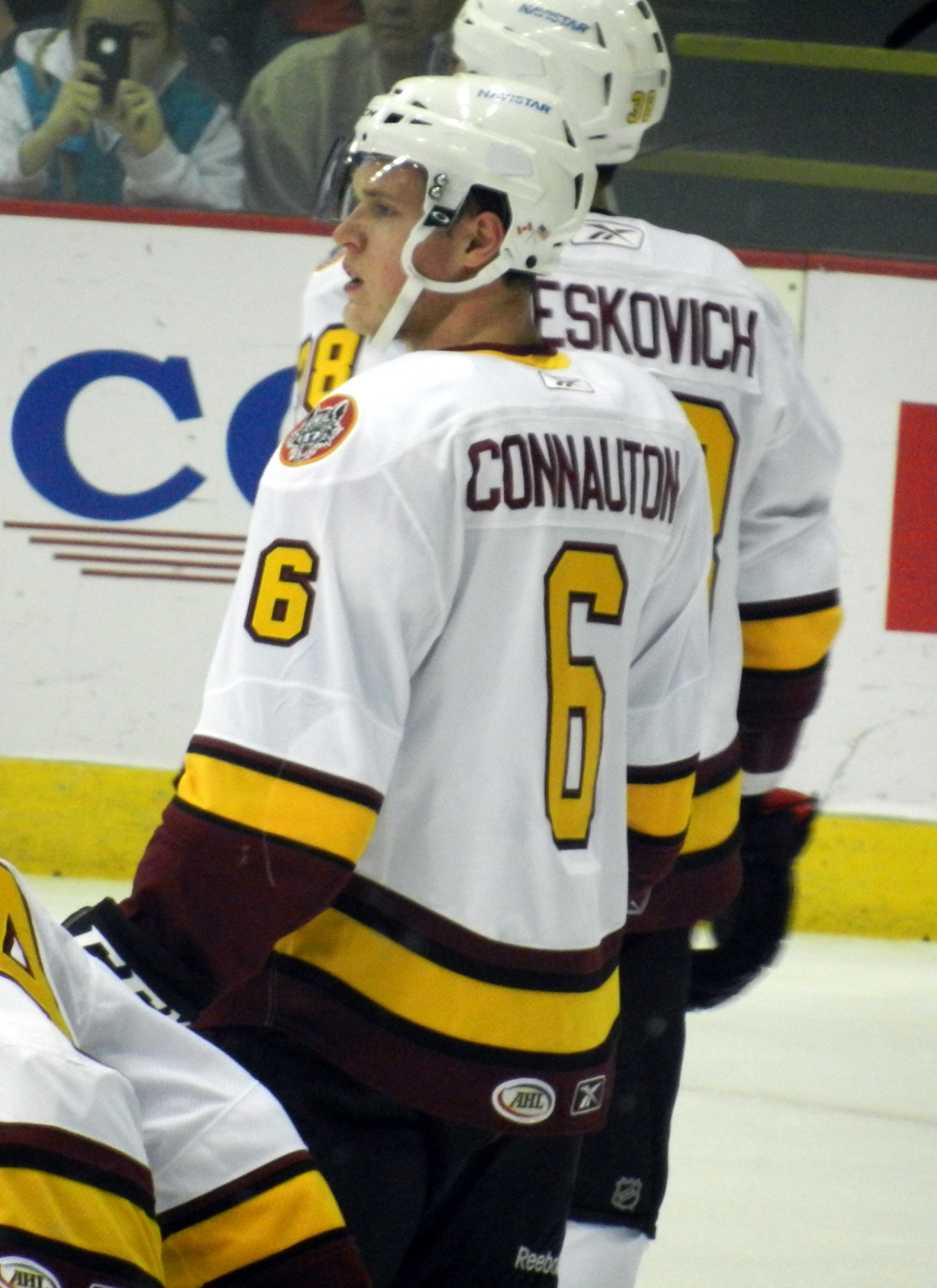 Kevin Connauton playing for the Chicago Wolves during the 2011-12 AHL season